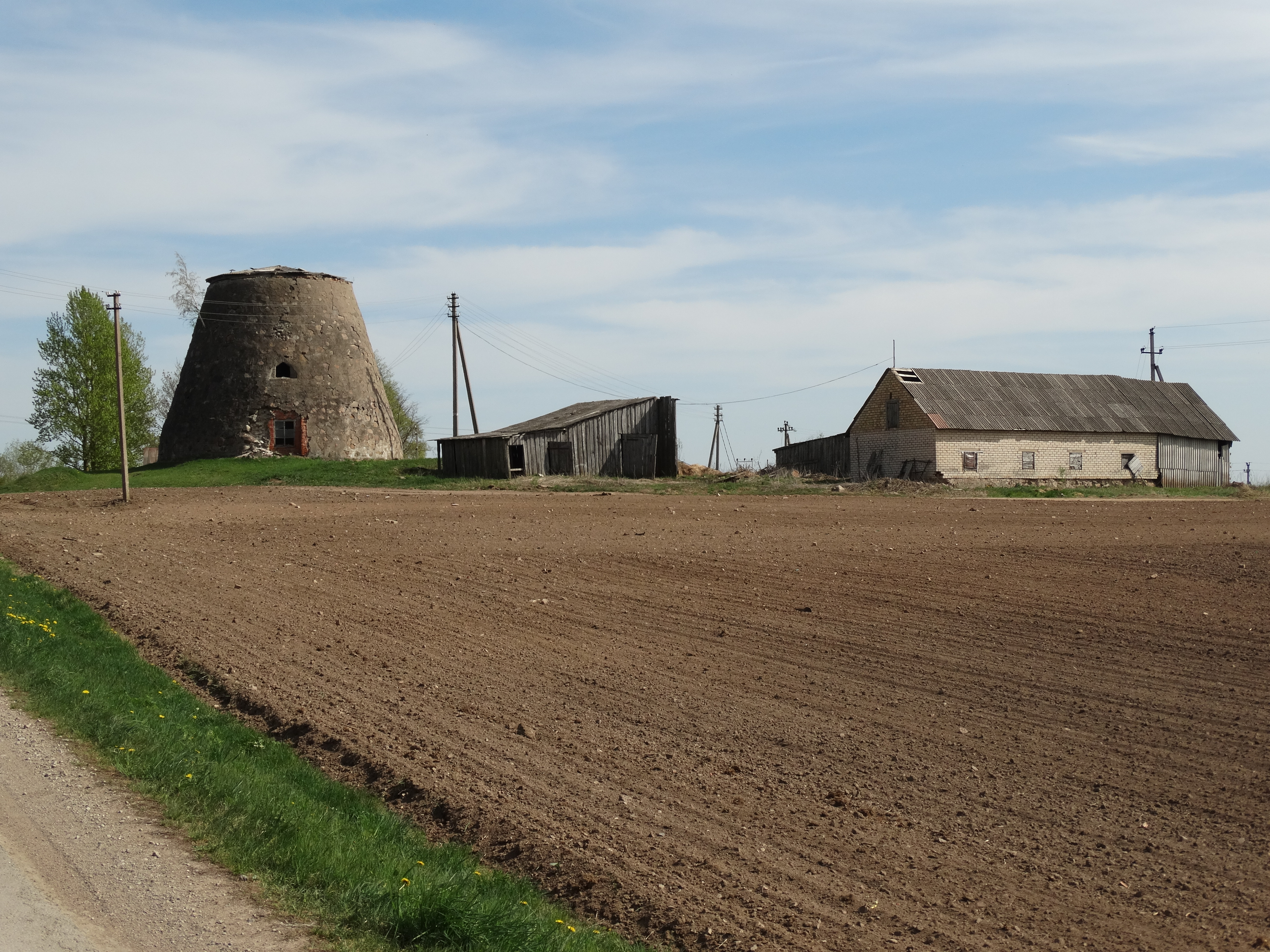 Guostagalis, wind mill, Pakruojis District, Lithuania